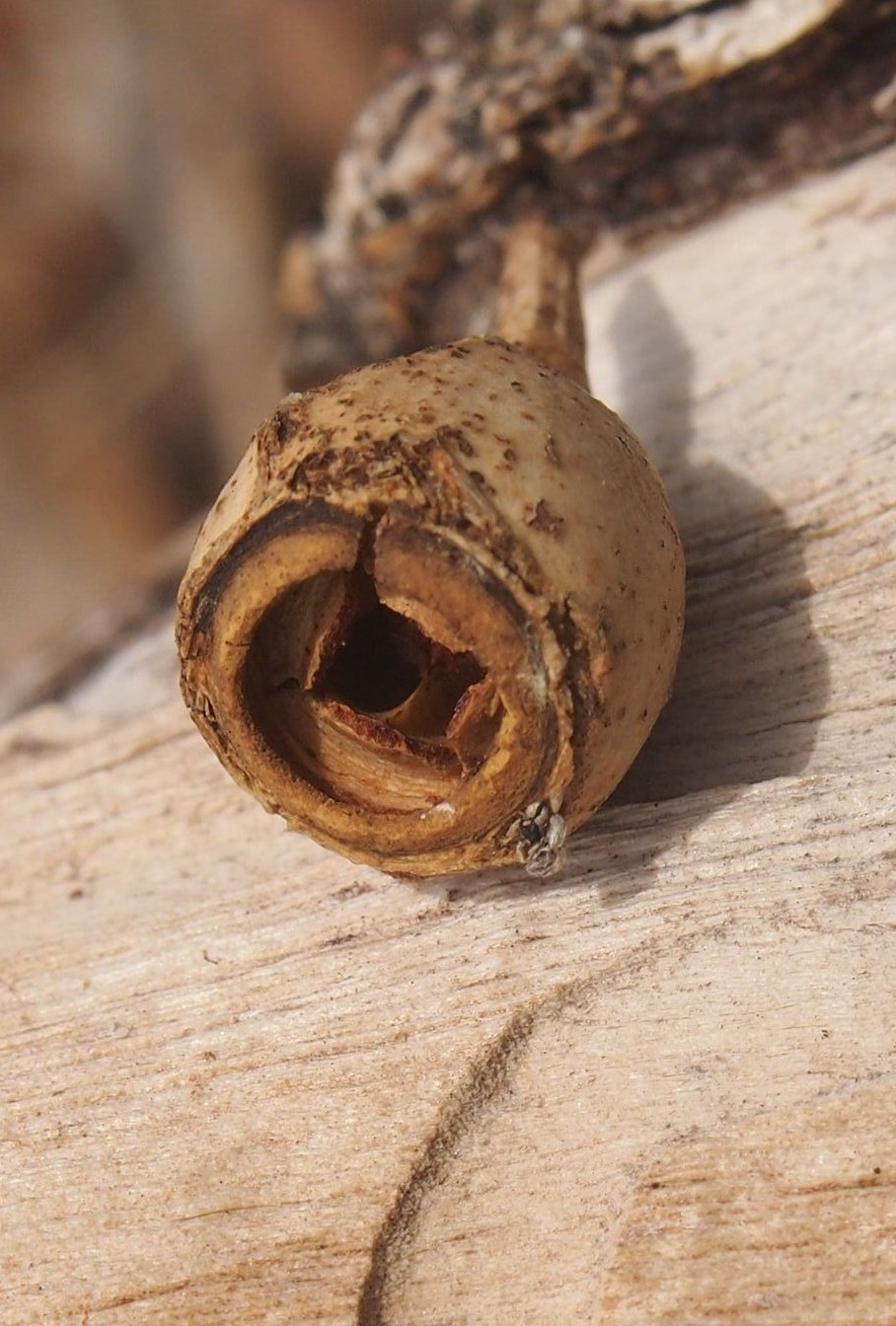 Eucalyptus orgadophila capsule